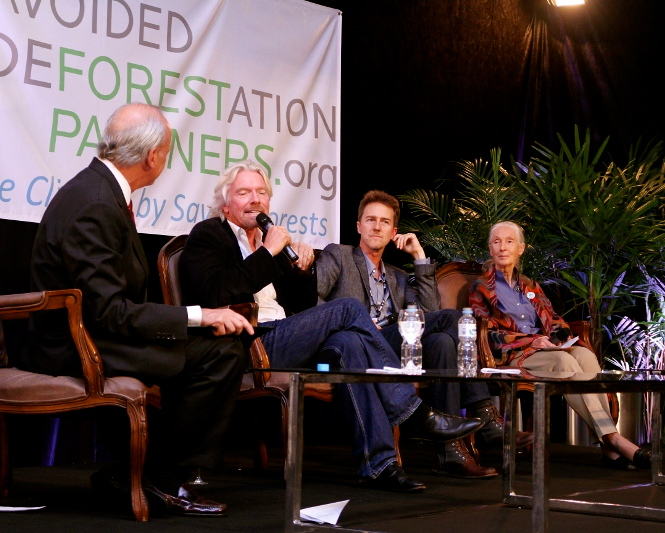 Avoided Deforestation Partners Rio+20 Event with Jeff Horowitz moderating discussion between Richard Branson, Edward Norton & Jane Goodall